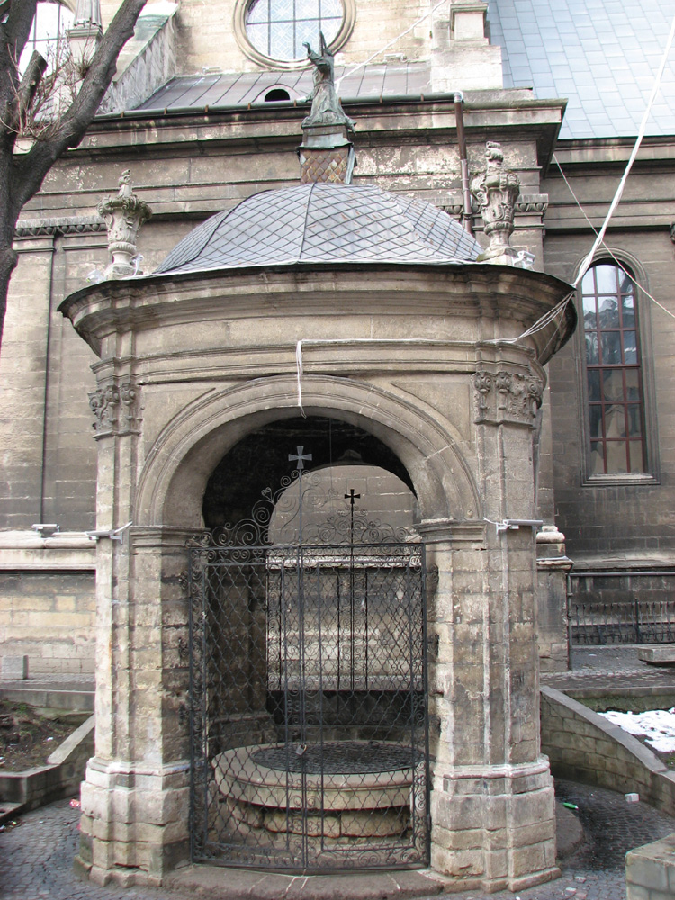 Bernardine church and monastery in Lviv